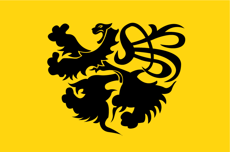 Flag of Leon (Brittany)